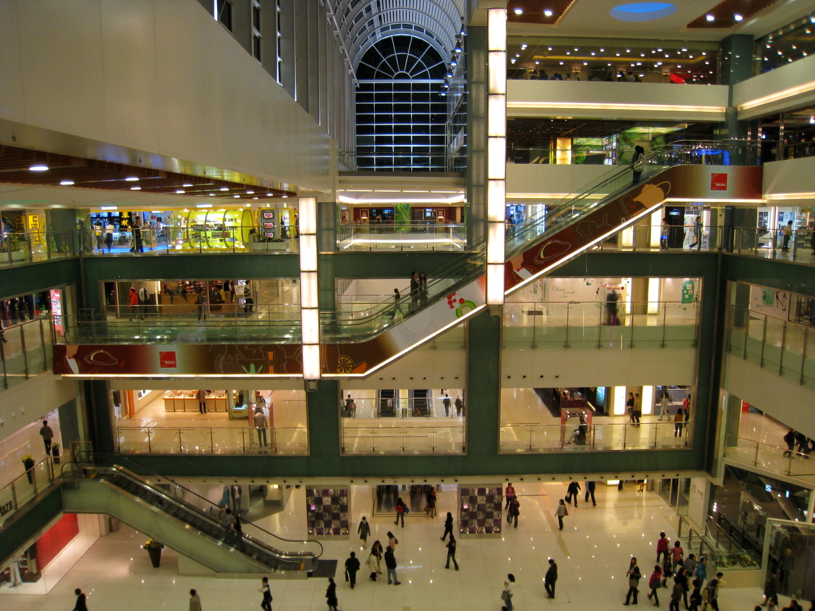 HK NewTownPlaza Plase1 E54 escalator